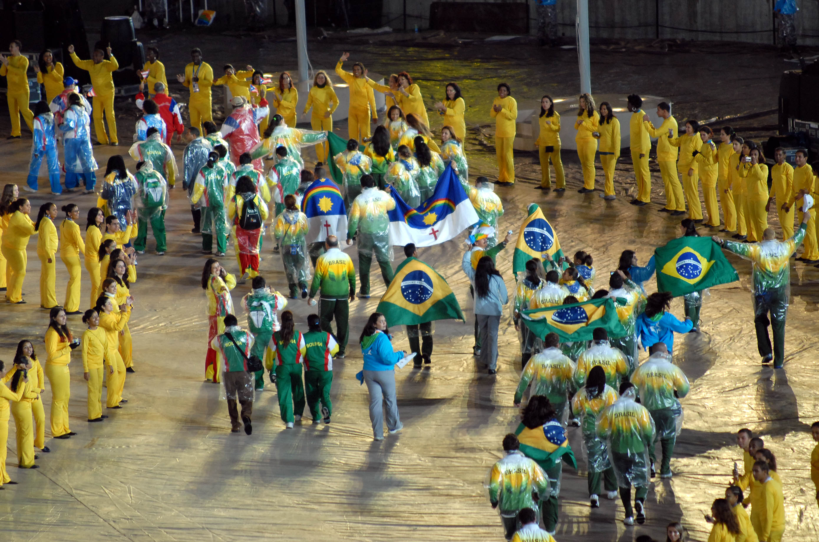 Brazilian athletes at Rio 2007 Pan American Games Closing Ceremony